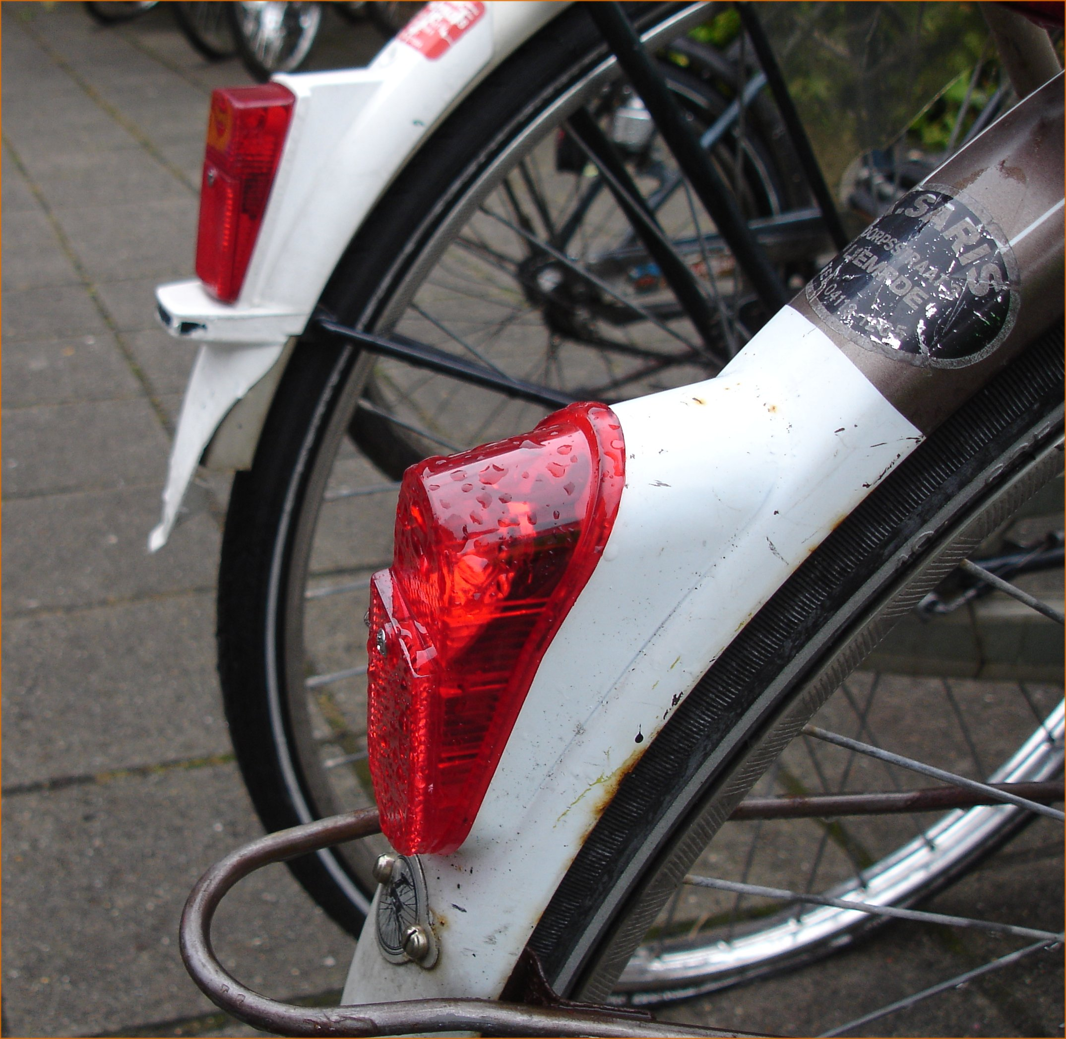 Cycle fender with built-in rear light